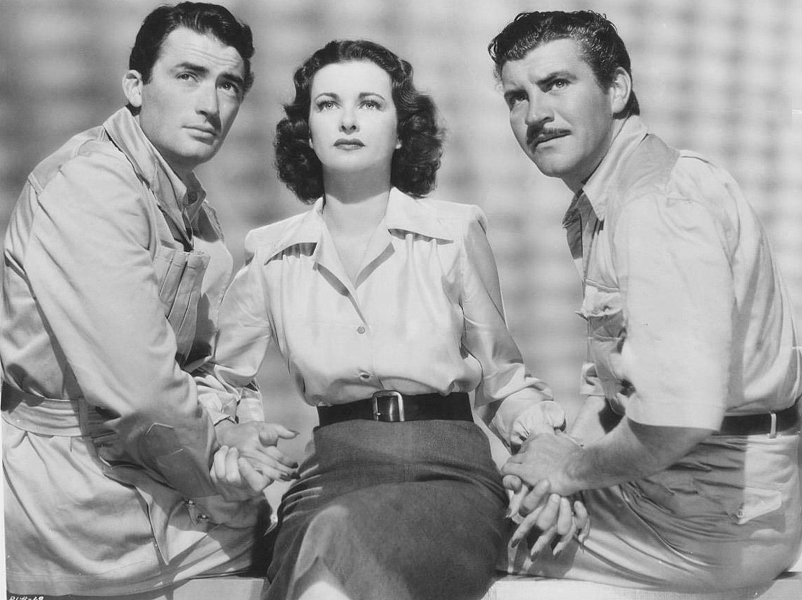 Gregory Peck, Joan Bennett and Robert Preston in American adventure film The Macomber Affair (1947).